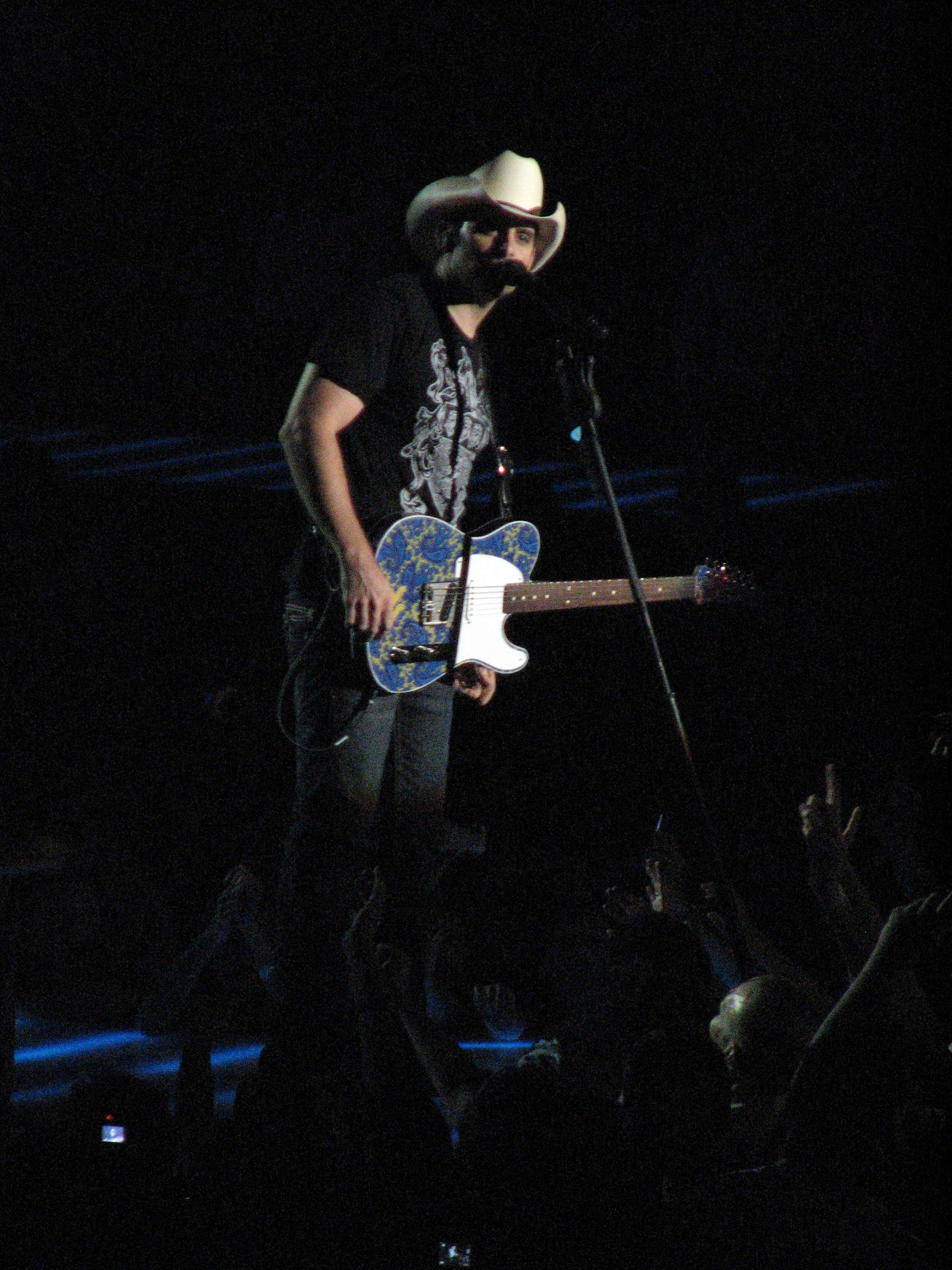 Brad Paisley performing live at the Duncan Donuts Center in Providence, Rhode Island, September 27, 2008